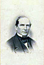 James Tracy Hale, US Representative from Pennsylvania